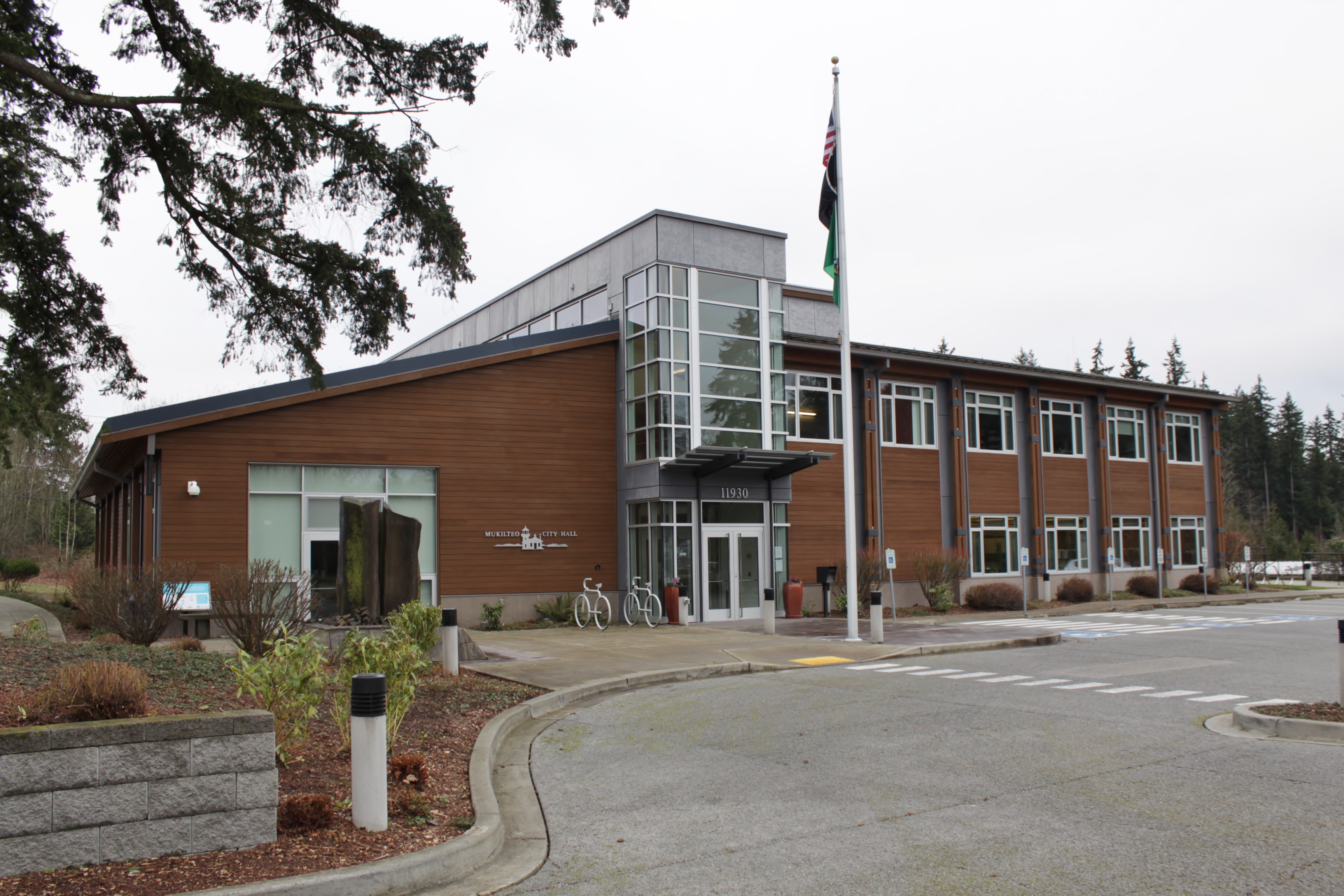 The city hall of Mukilteo, Washington, a suburb near Seattle.